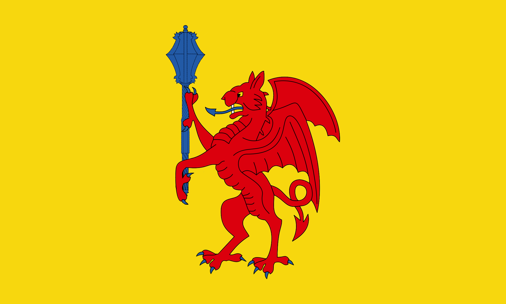 Obsolete flags of counties of England